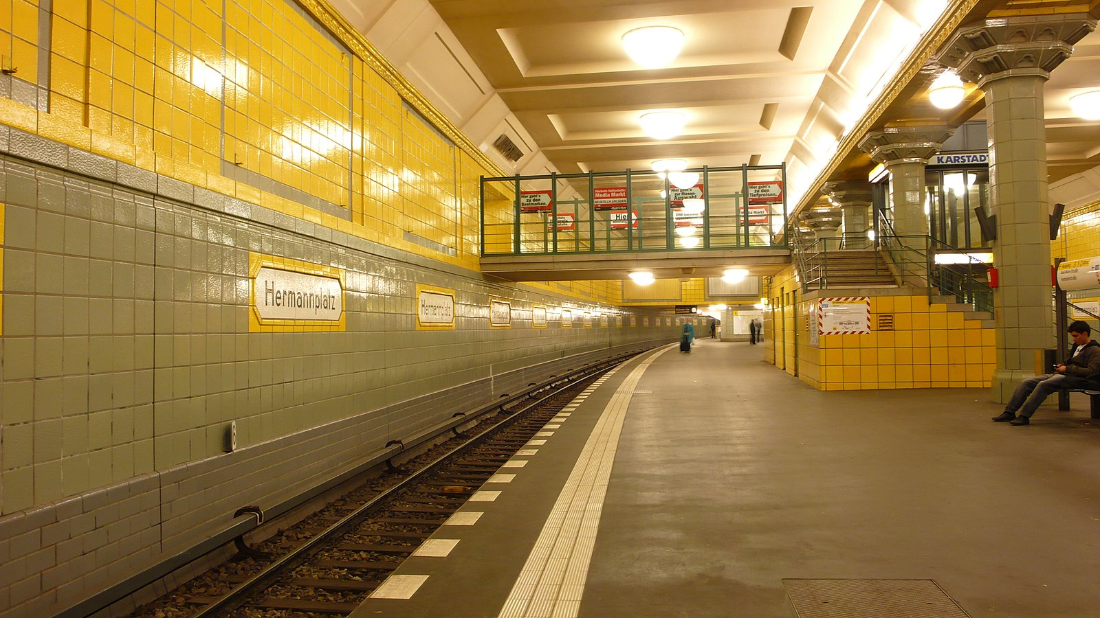 Subway Hermannplatz Berlin